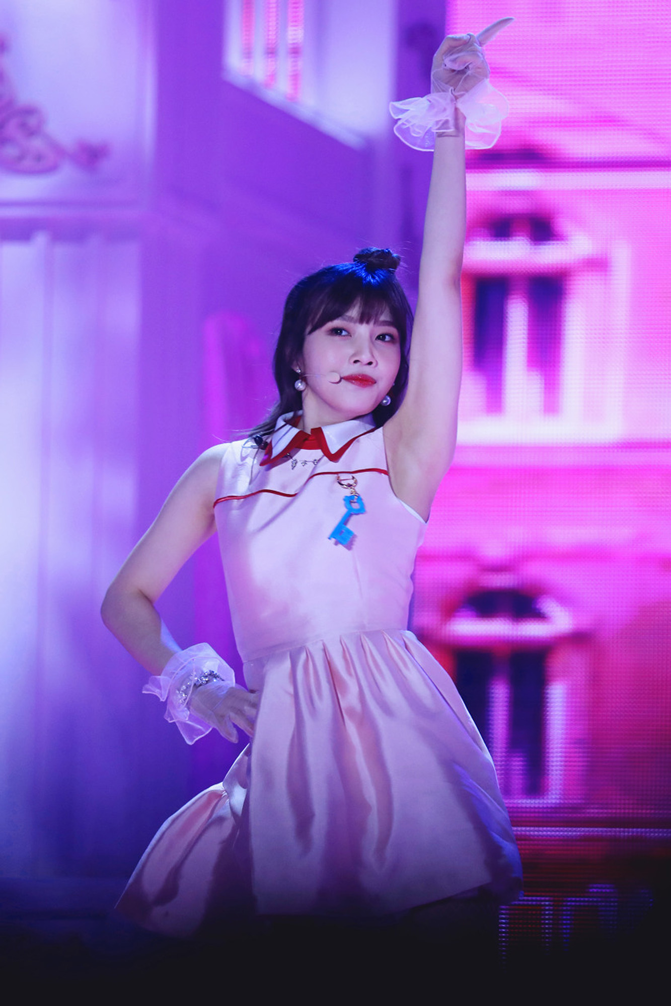 Joy Park at 8th Melon Music Awards on November 19, 2016.